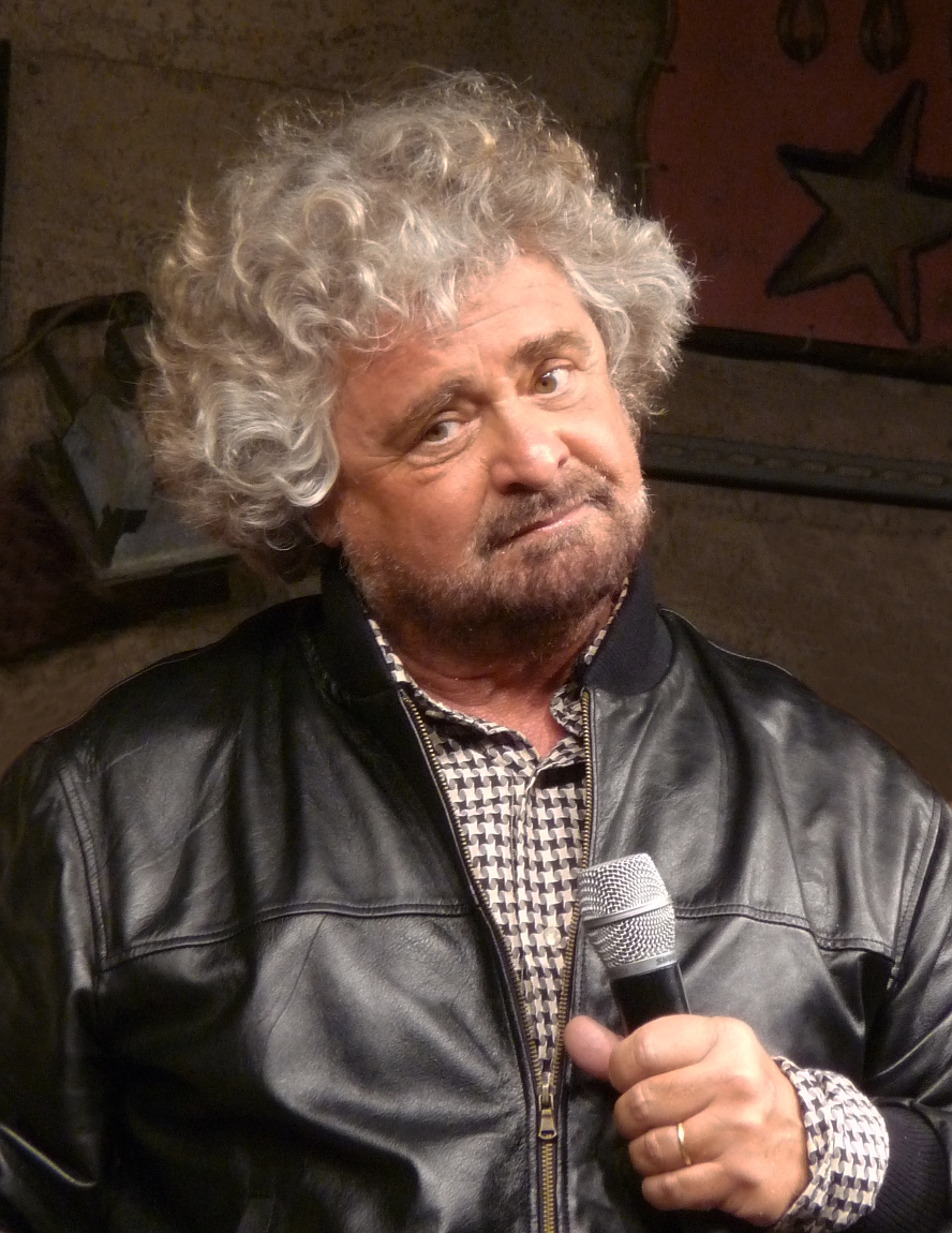 Beppe Grillo, Italian comedian, activist and blogger.